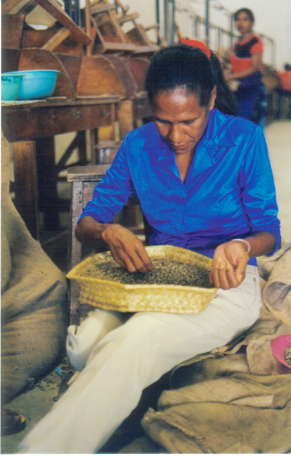 Coffee sorting in Dili, East Timor